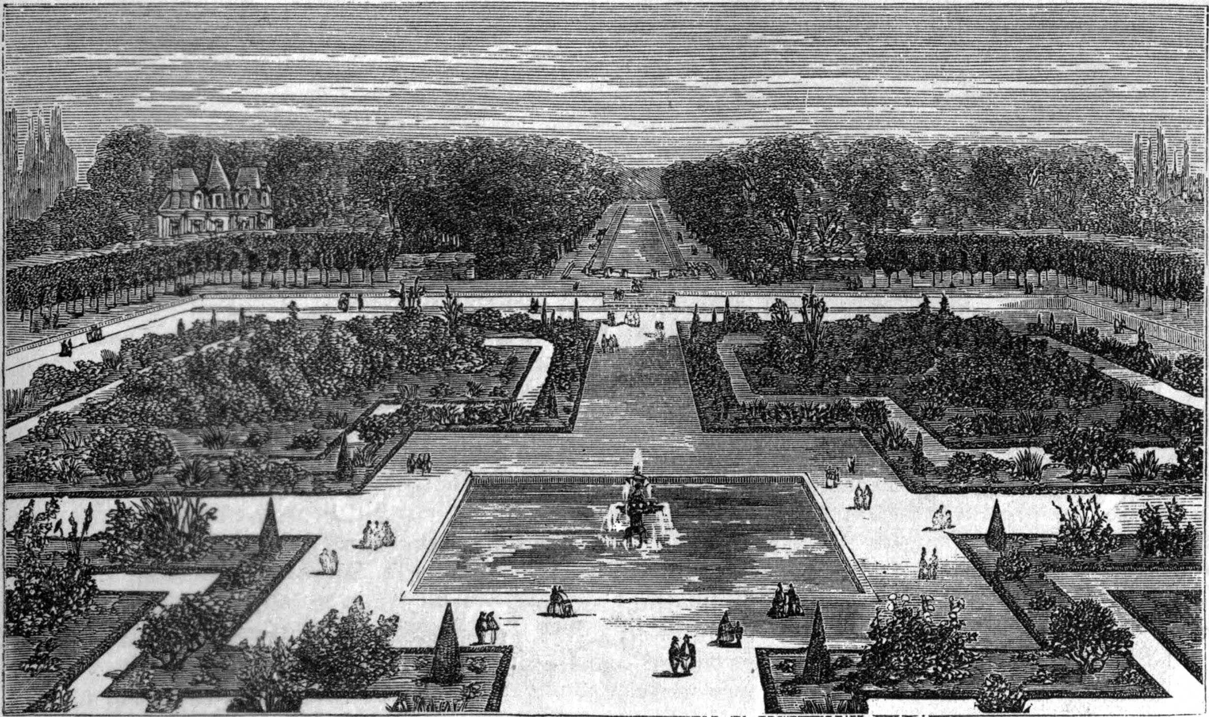 Drawing of a view of Fontainebleau (France) from the château.